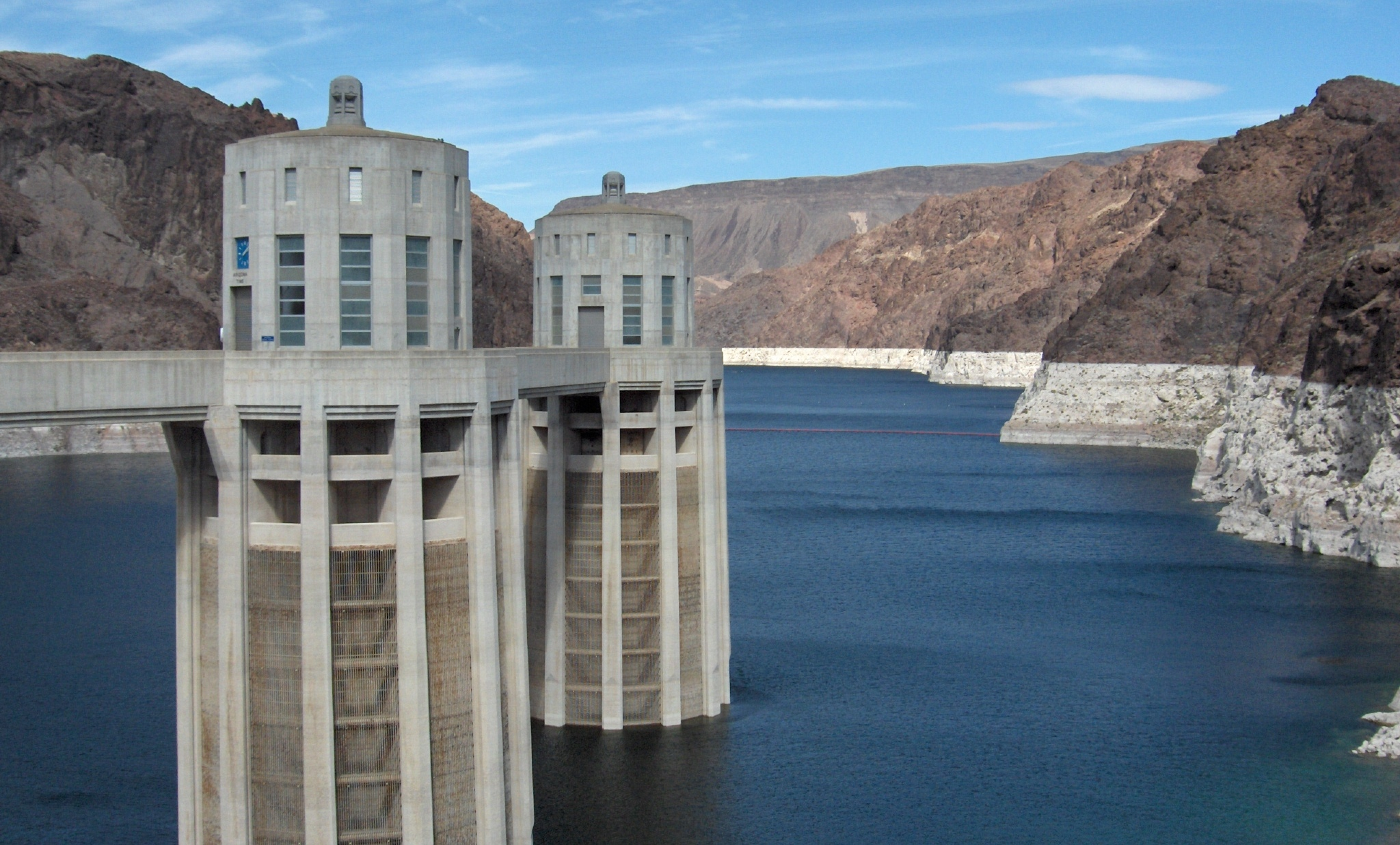 Intake towers of Hoover Dam in Lake Mead on the Arizona side.